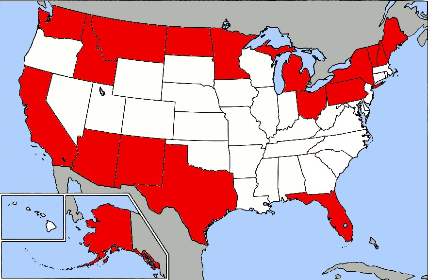 International Border states in the continental United States, such marked red.